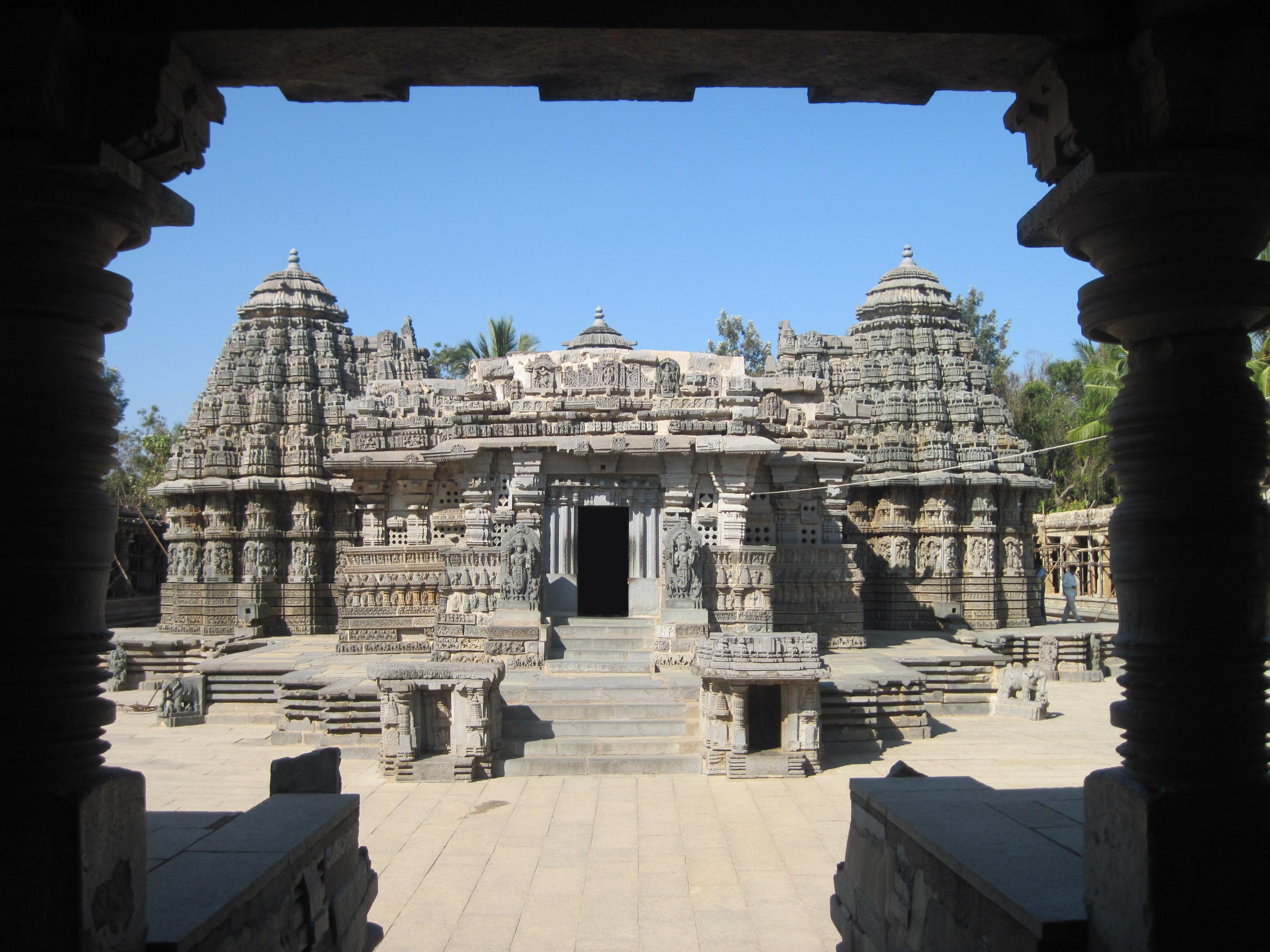 Somnathpura Temple